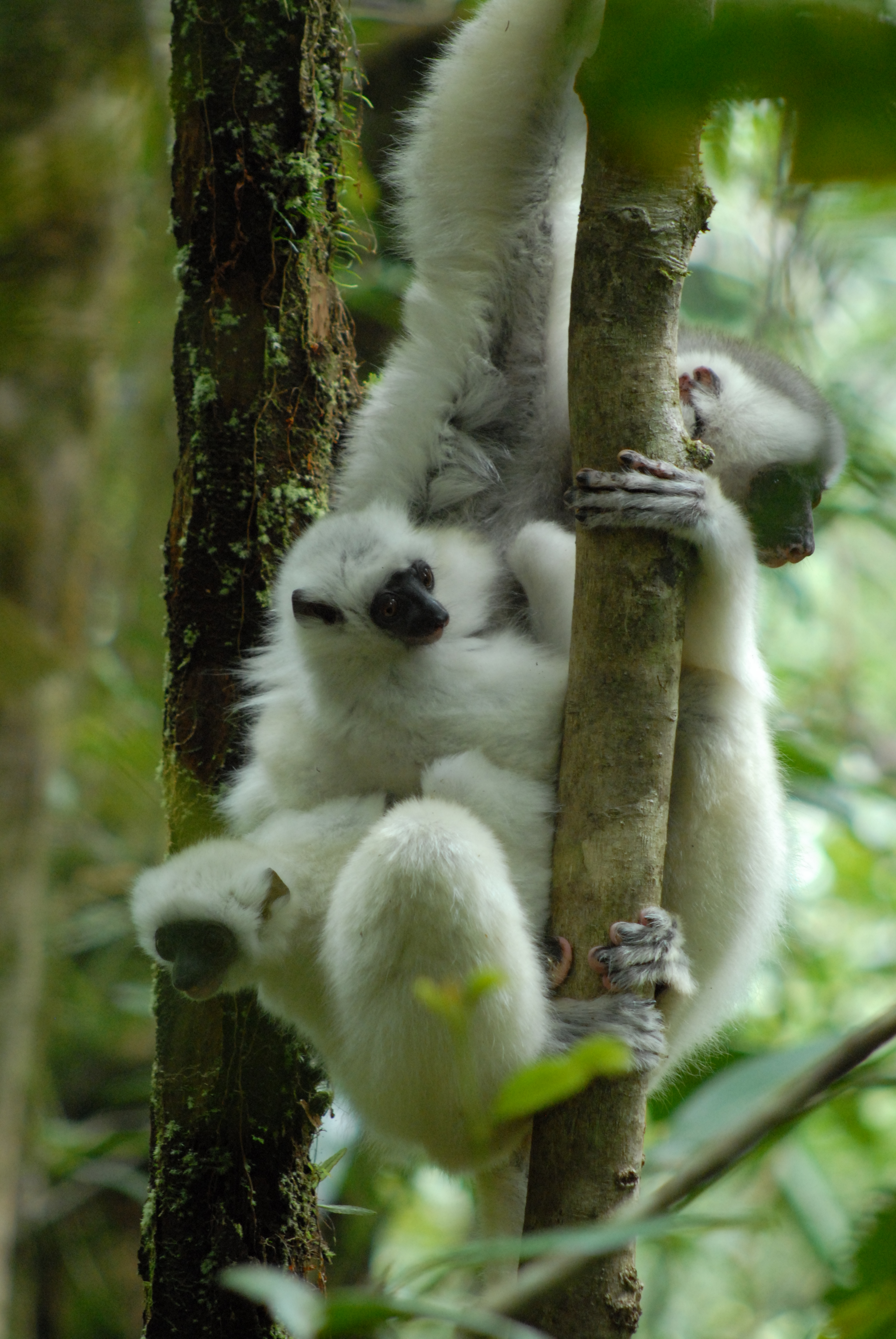 Silky Sifaka Photo taken by myself in Marojejy National Park, Madagascar